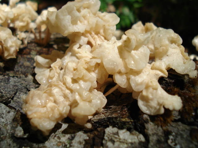 Fruit bodies of the fungus Physalacria inflata. Specimen photographed in Indian Lake, Adirondack Region, NY, USA.